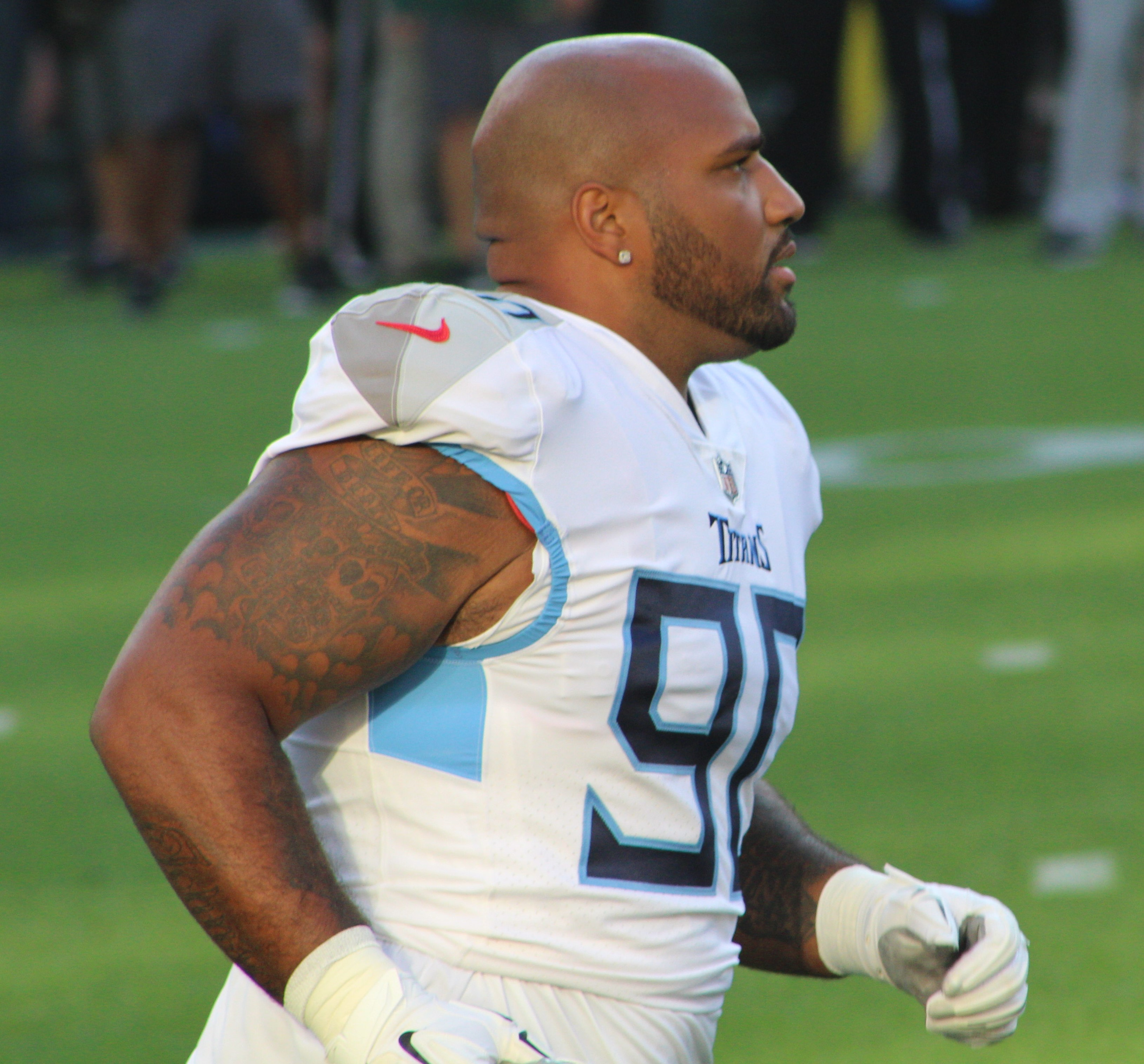 DaQuan Jones, Tennessee Titans at Green Bay Packers (Preseason), August 9, 2018